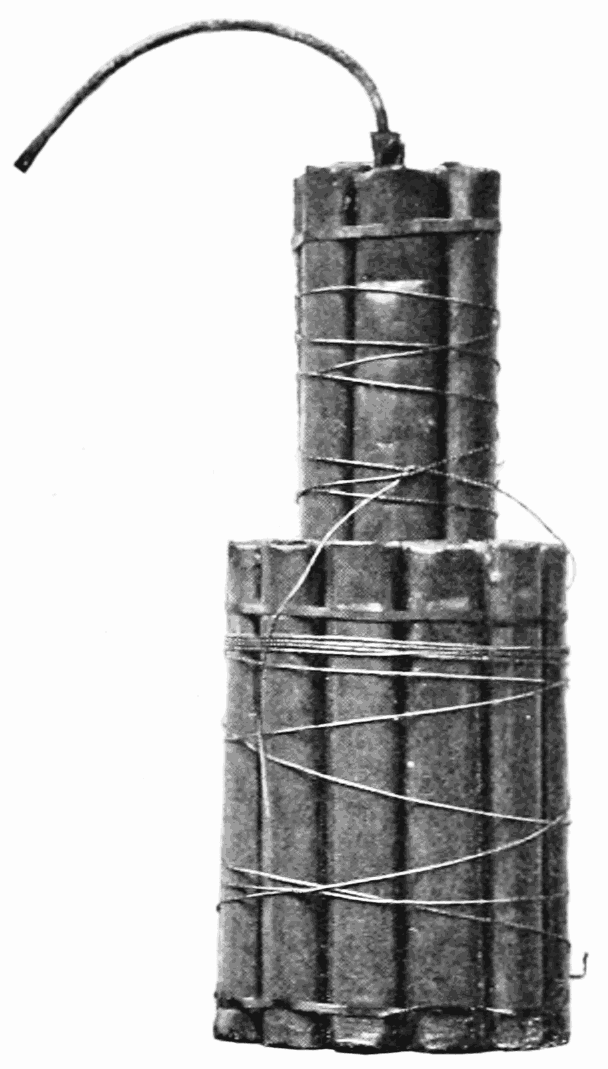 Hollow dynamite cartridge elevation view